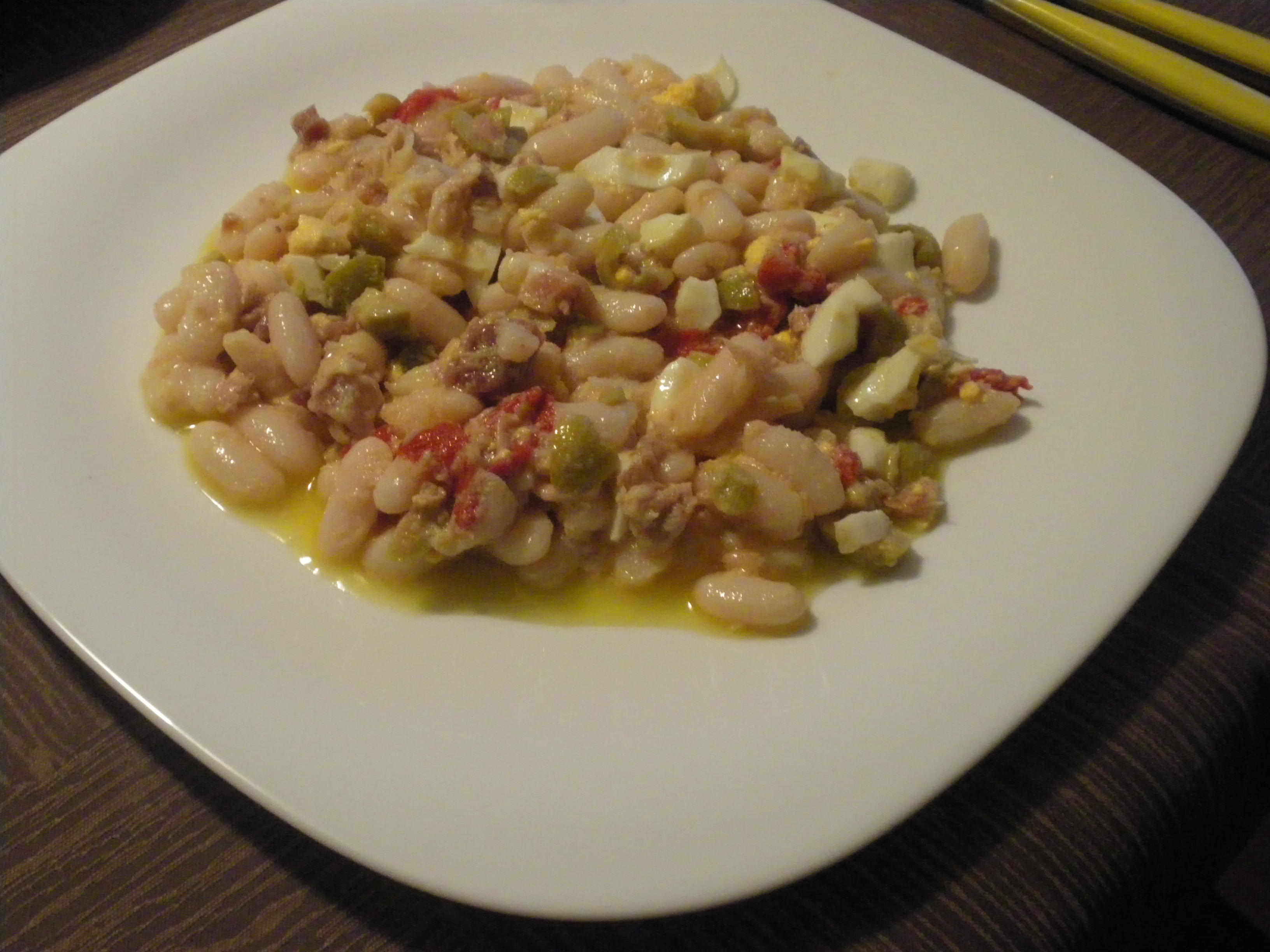 Typical Catalan plate cold.